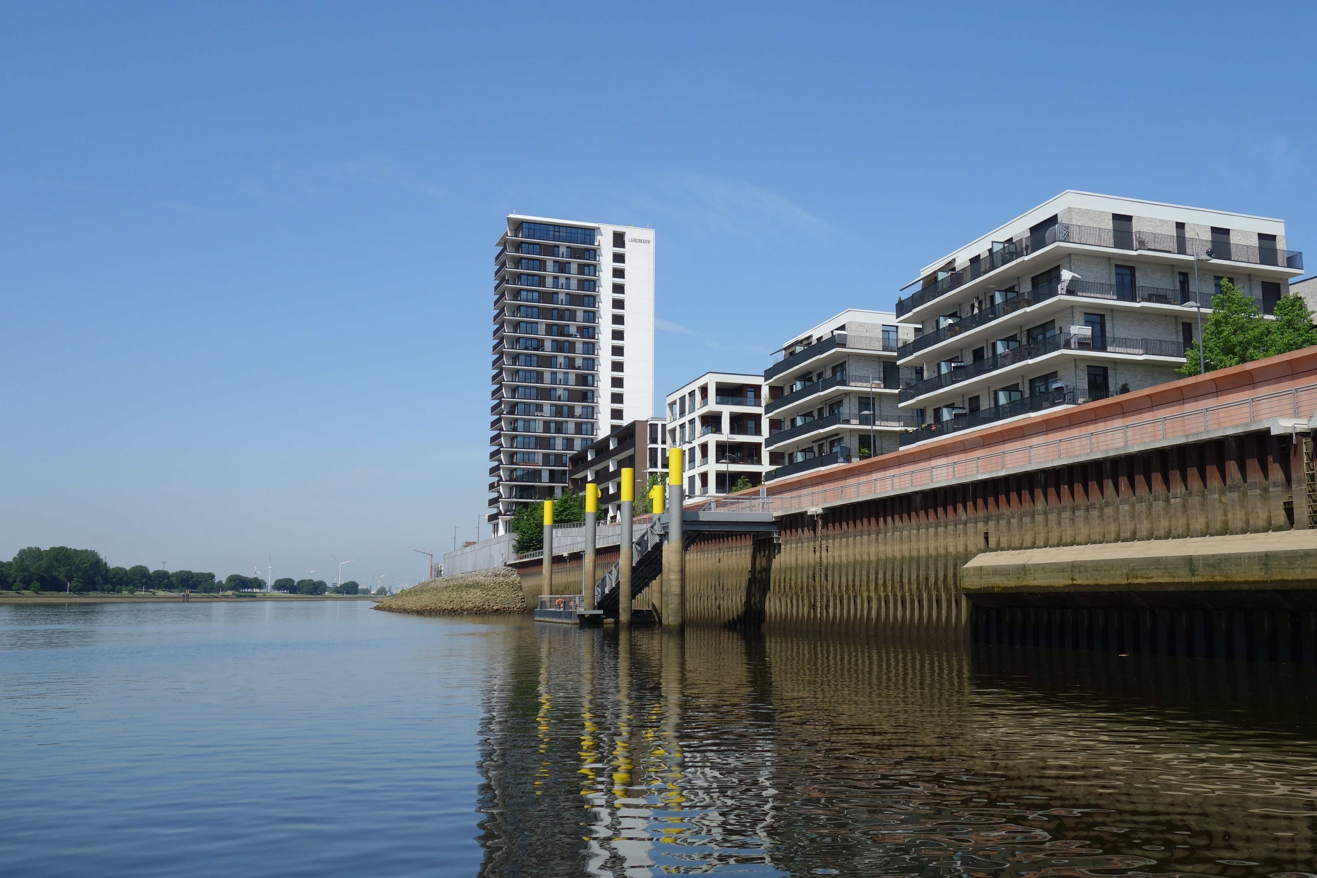 The Landmark-Tower marks the end of the so called Buffkaje in Bremen-Überseestadt